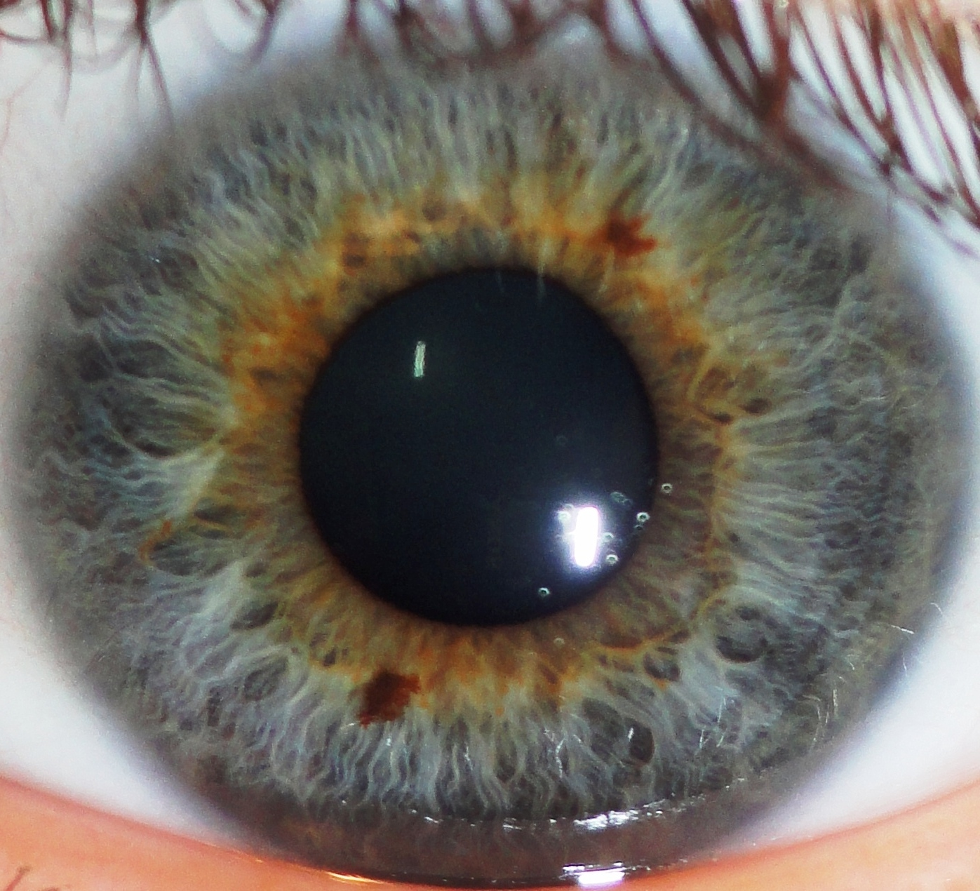 Steel blue iris with gold ring around pupil.